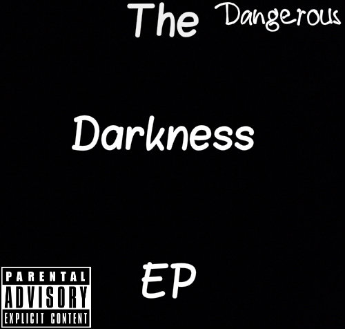 The cover for my band's debut EP